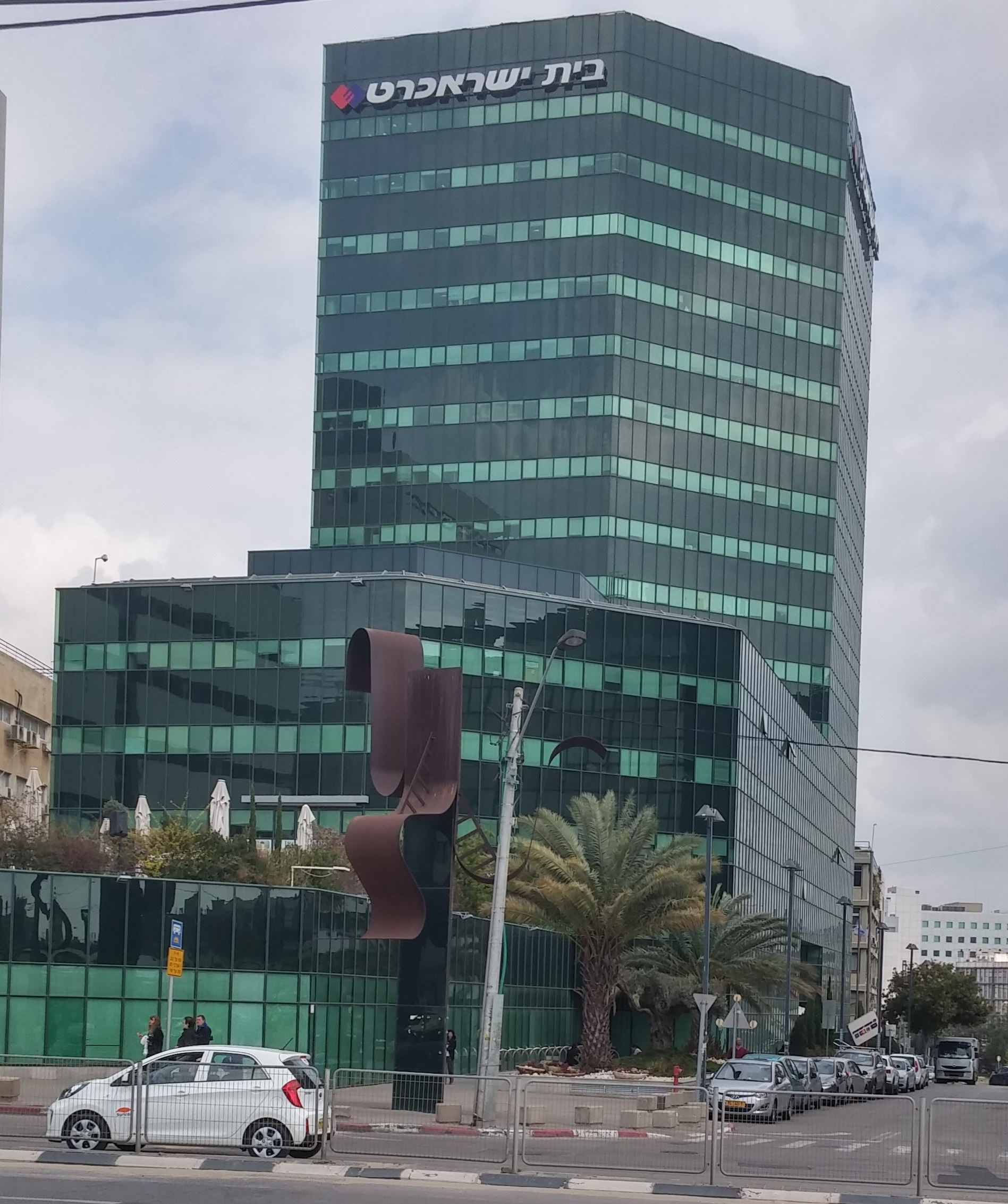 Isracard building